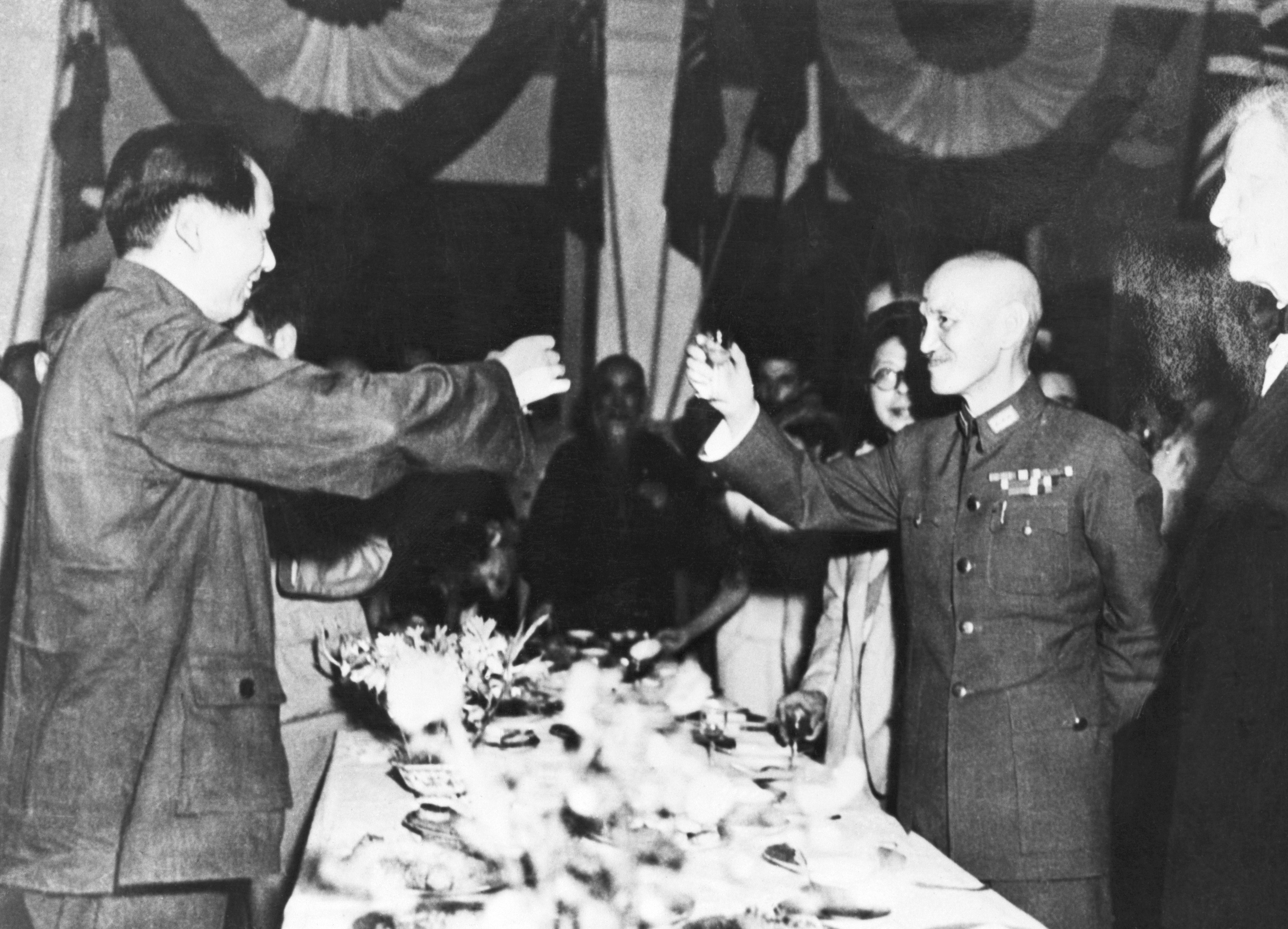 Mao Zedong and Chiang Kai-shek in Chongqing, China, in September 1945, toasting the victory over Japan.